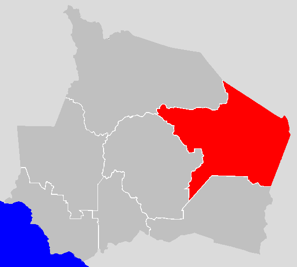 district map of Negeri Sembilan , Malaysia (using [1] as reference)